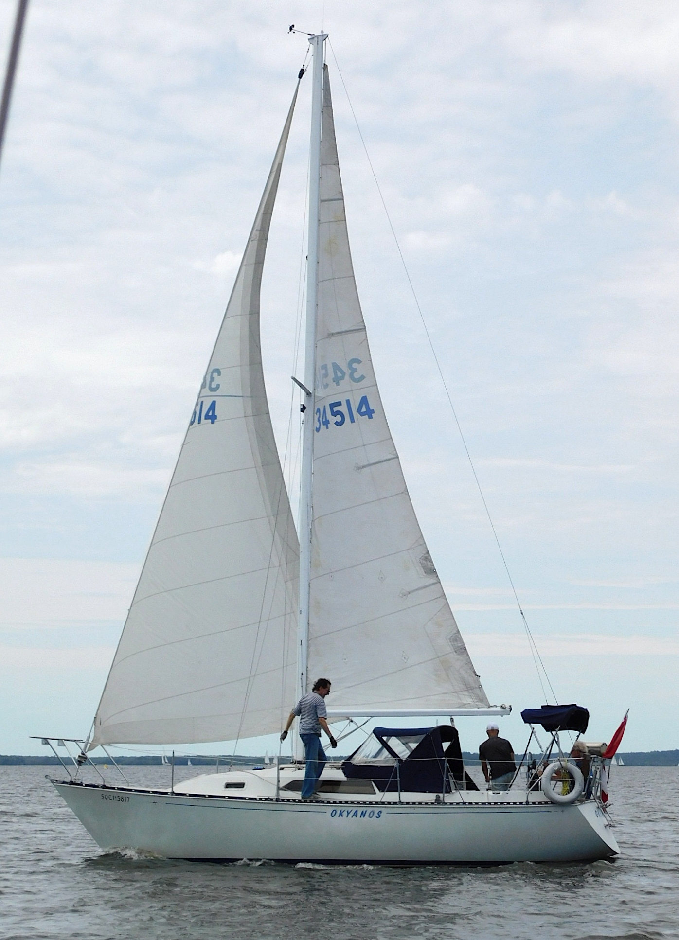 A C&C 29 Mark II sailboat named Okyanos.